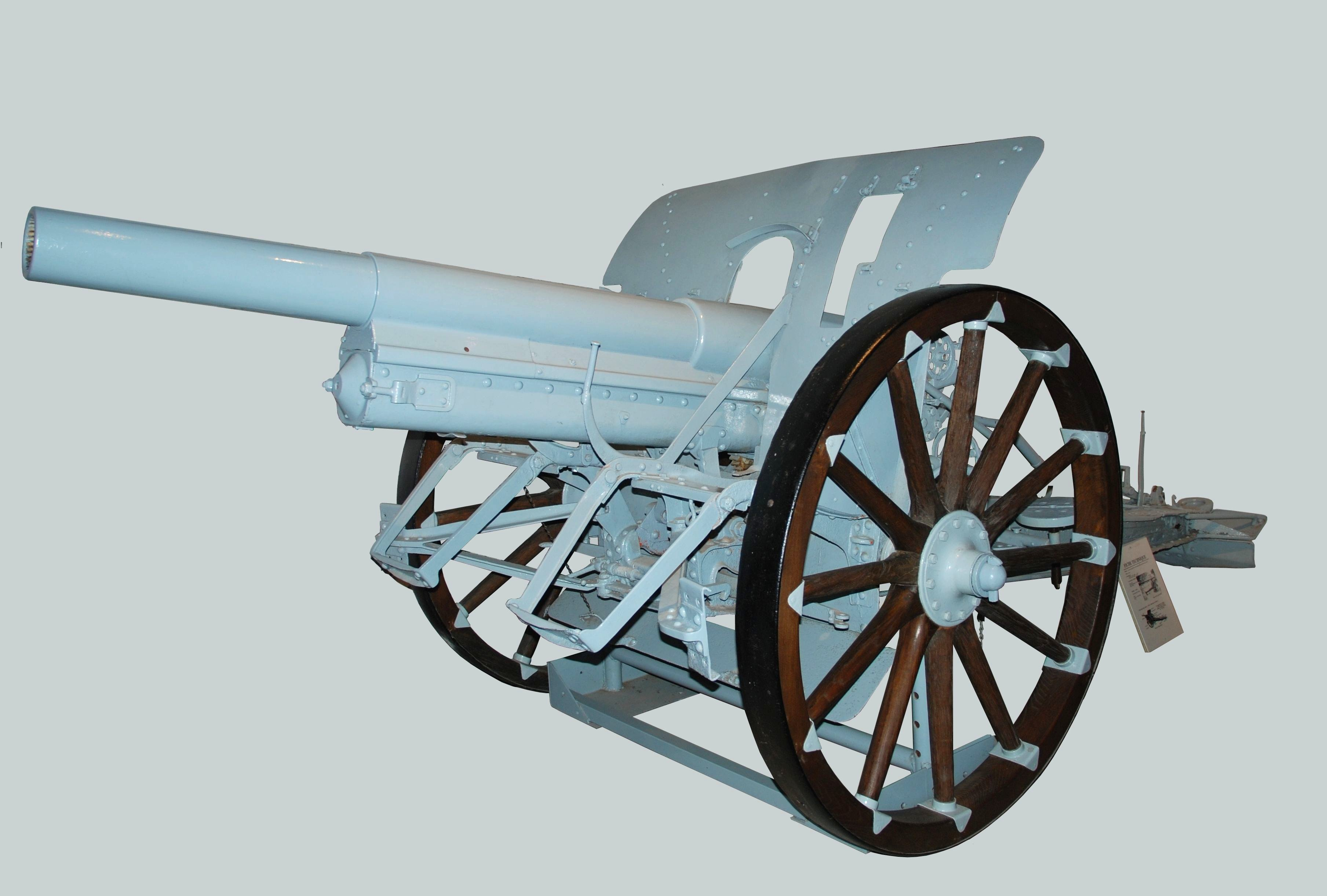 German 10,5 cm light field howitzer ml.16; the Verdun Memorial, Fleury-devant-Douaumont, France